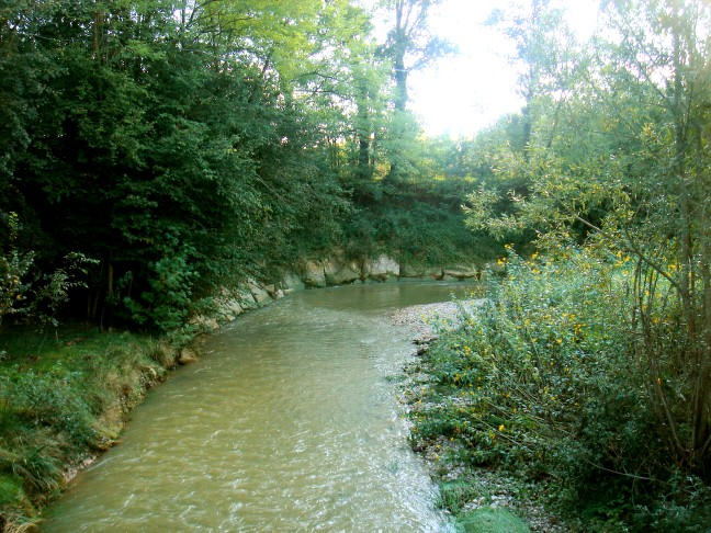 Lierza